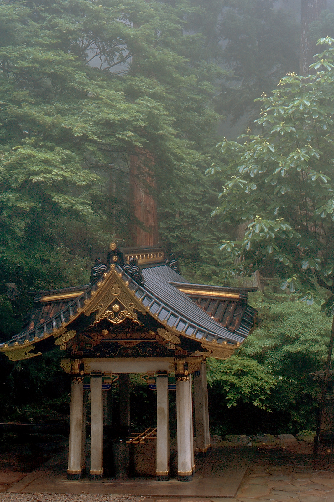 Shinto hand cleaning station at Nikkō Tōshō-gū.